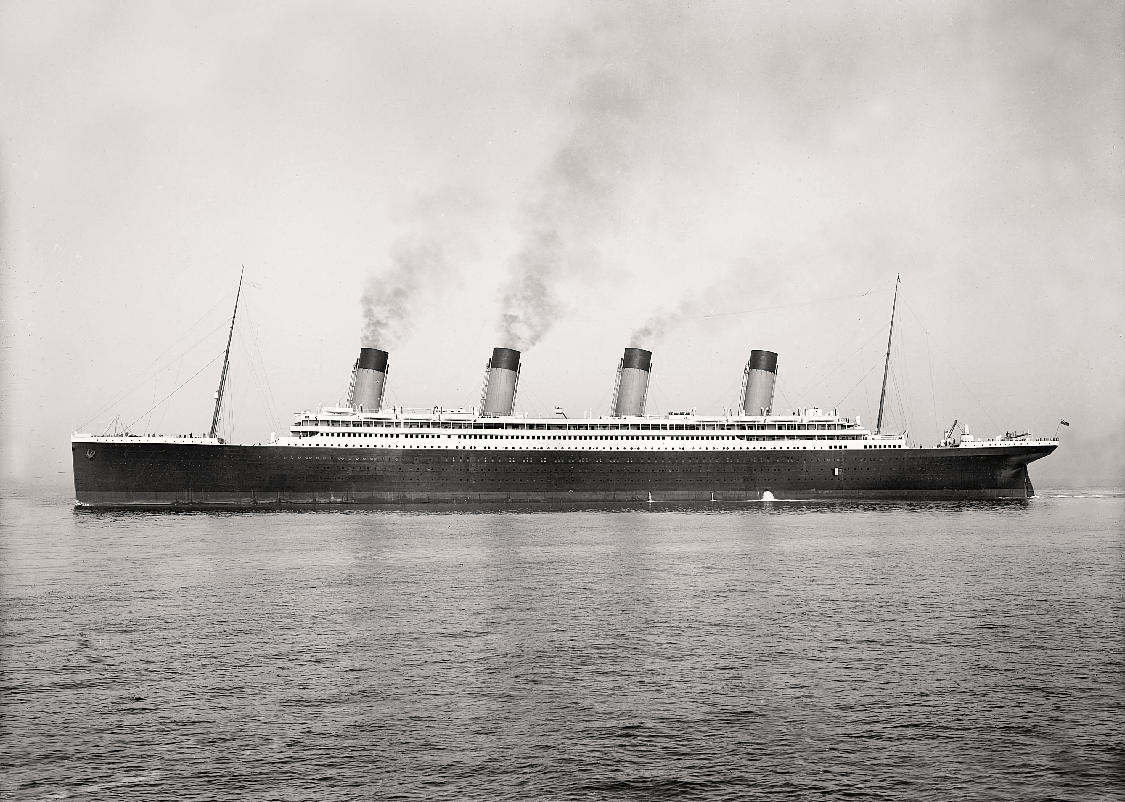 RMS Olympic during her sea trial